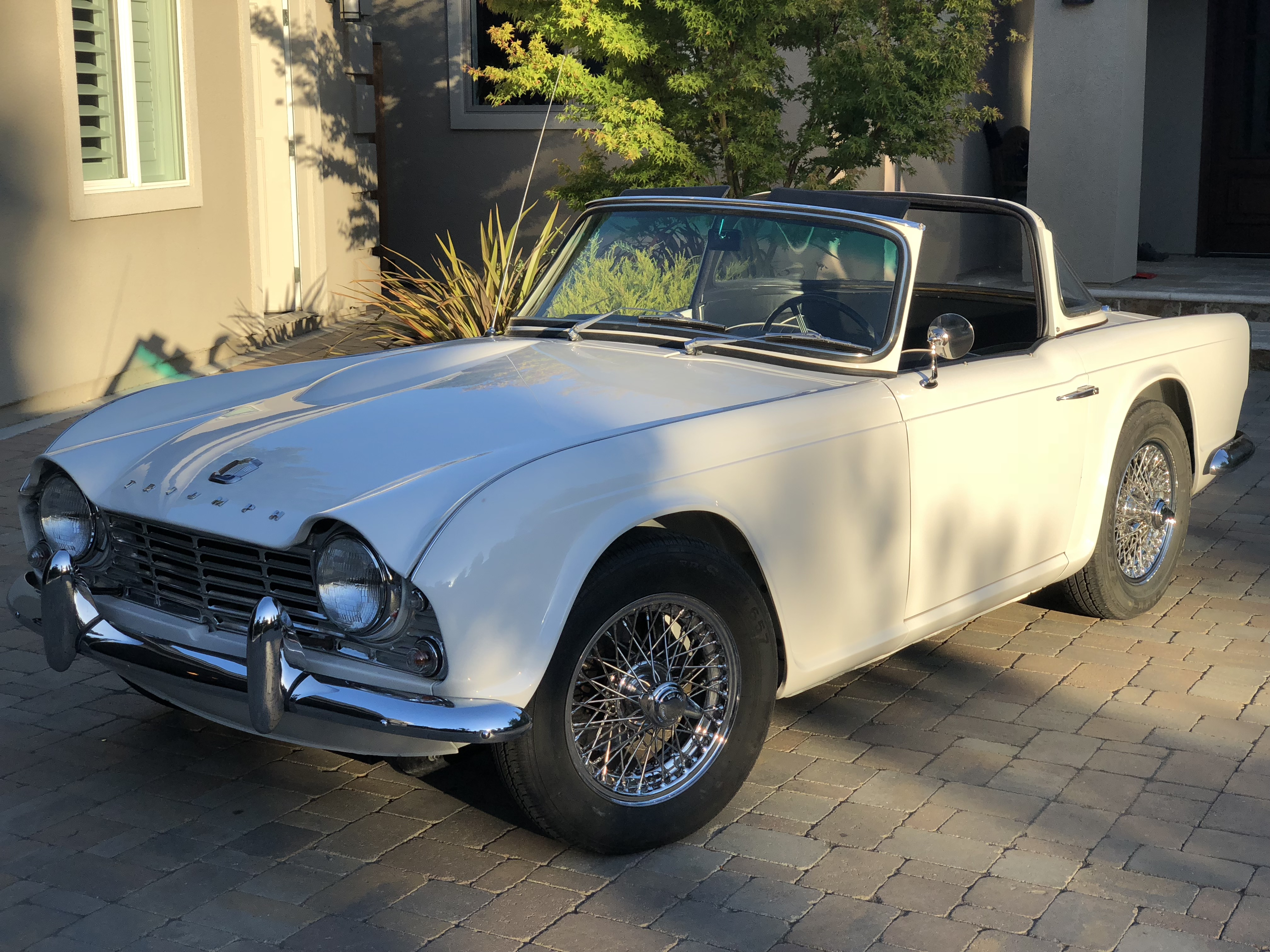 1964 TR4 with "Surrey Top" backlight